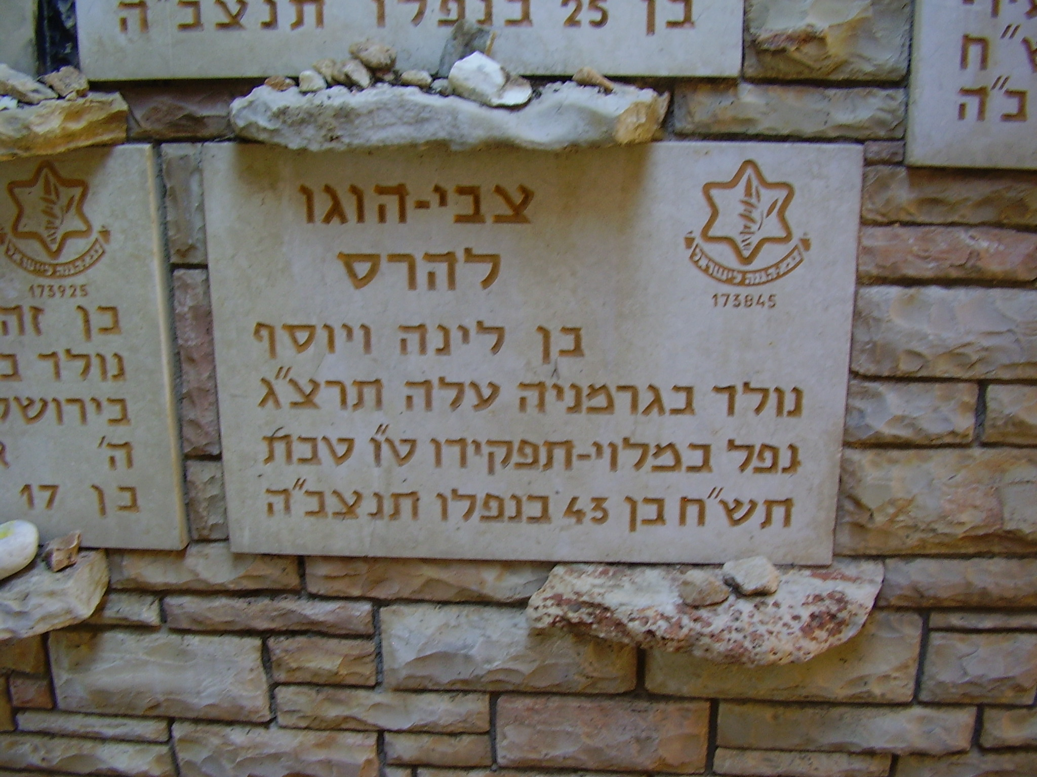 old city memorial in mount herzl